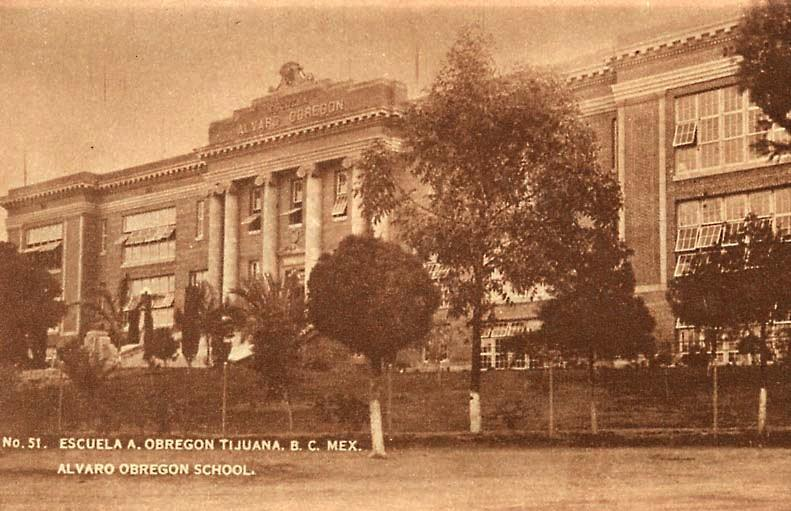 Historic photograph of the Álvaro Obregón builging as it appeared in 1930 when it housed the Álvaro Obregón School. Today it is Tijuana House of Culture - Municipal Institute of Art and Culture (IMAC)